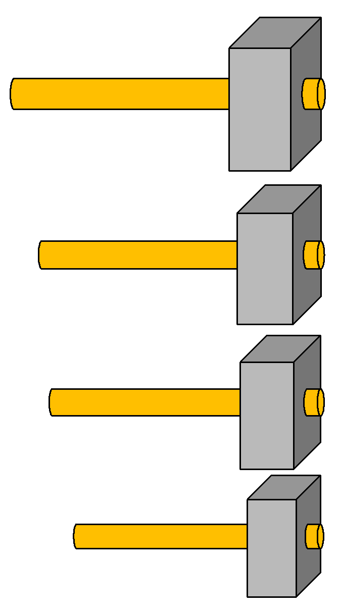 Four Pythagorean hammers, with weight ratios 12 : 9 : 8 : 6